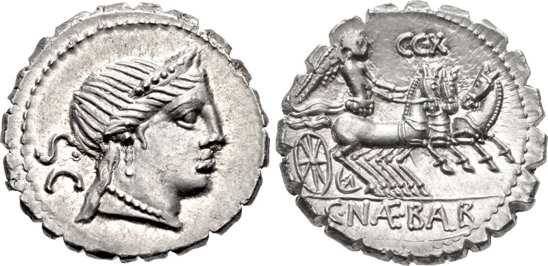 C. Naevius Balbus 79 BC. AR Serrate Denarius (18mm, 3.89 g, 12h). Rome mint. Diademed head of Venus right / Victory driving galloping triga right, holding reins; CCX above. Crawford 382/1b; Sydenham 769b; Naevia 6. Superb EF, underlying luster, traces of die rust on obverse, a tiny deposit on reverse.